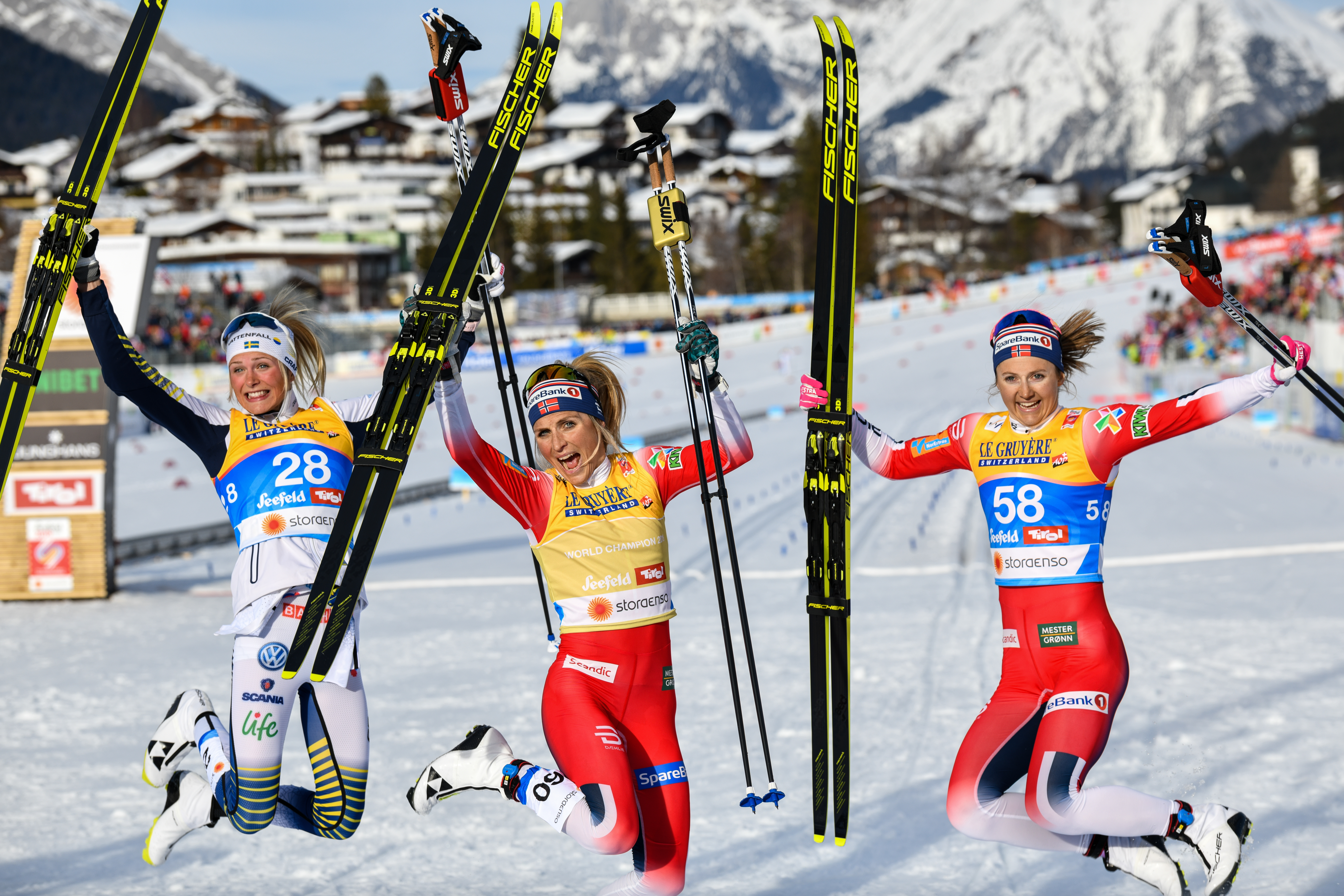 FIS Nordic World Ski Championships Seefeld 2019 - Ladies Cross Country 10km. Picture shows Frida Karlsson (SWE), Therese Johaug (NOR),Ingvild Flugstad Østberg (NOR)